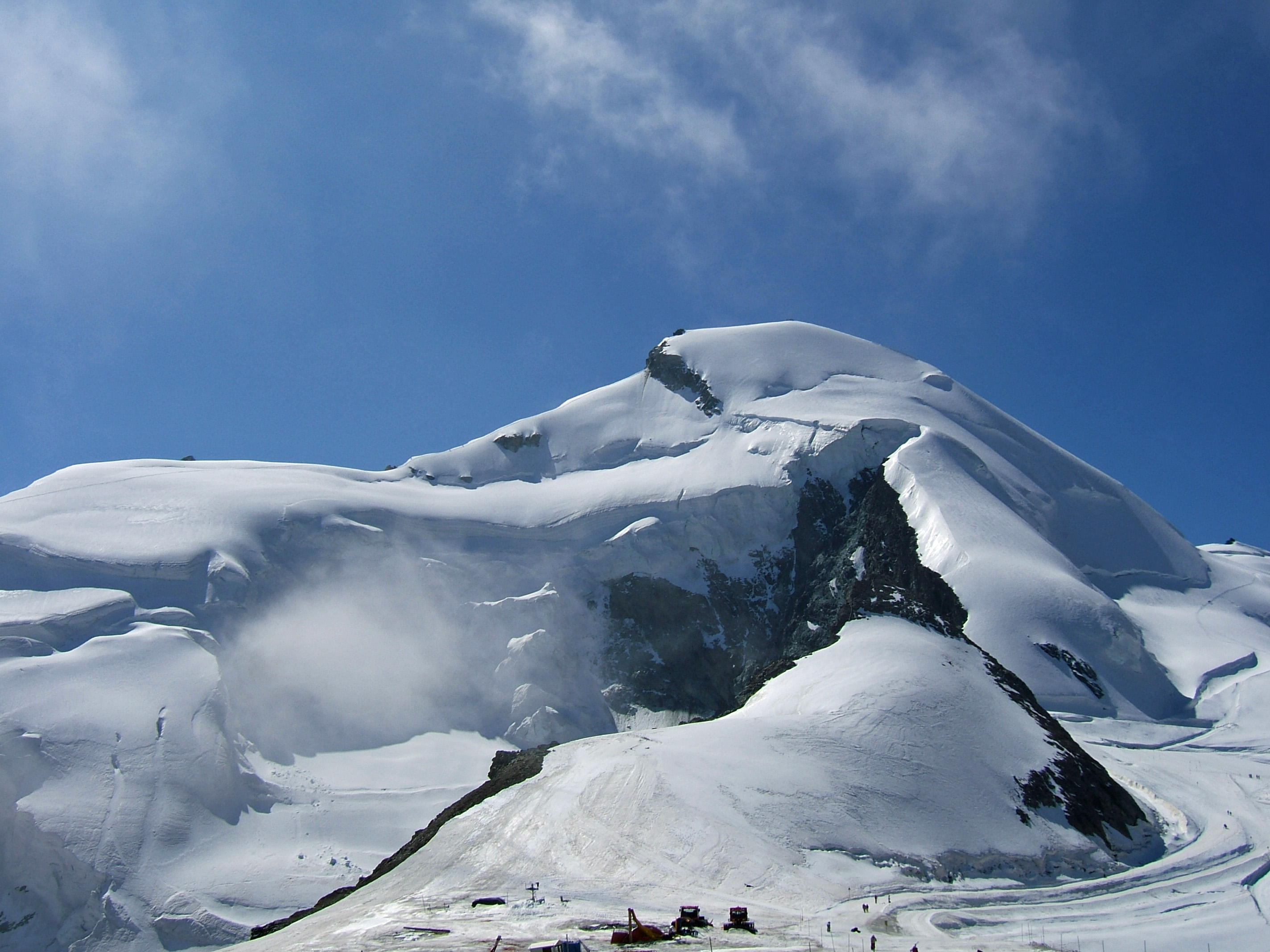 Allalinhorn from Northeast, from Mittelallalin